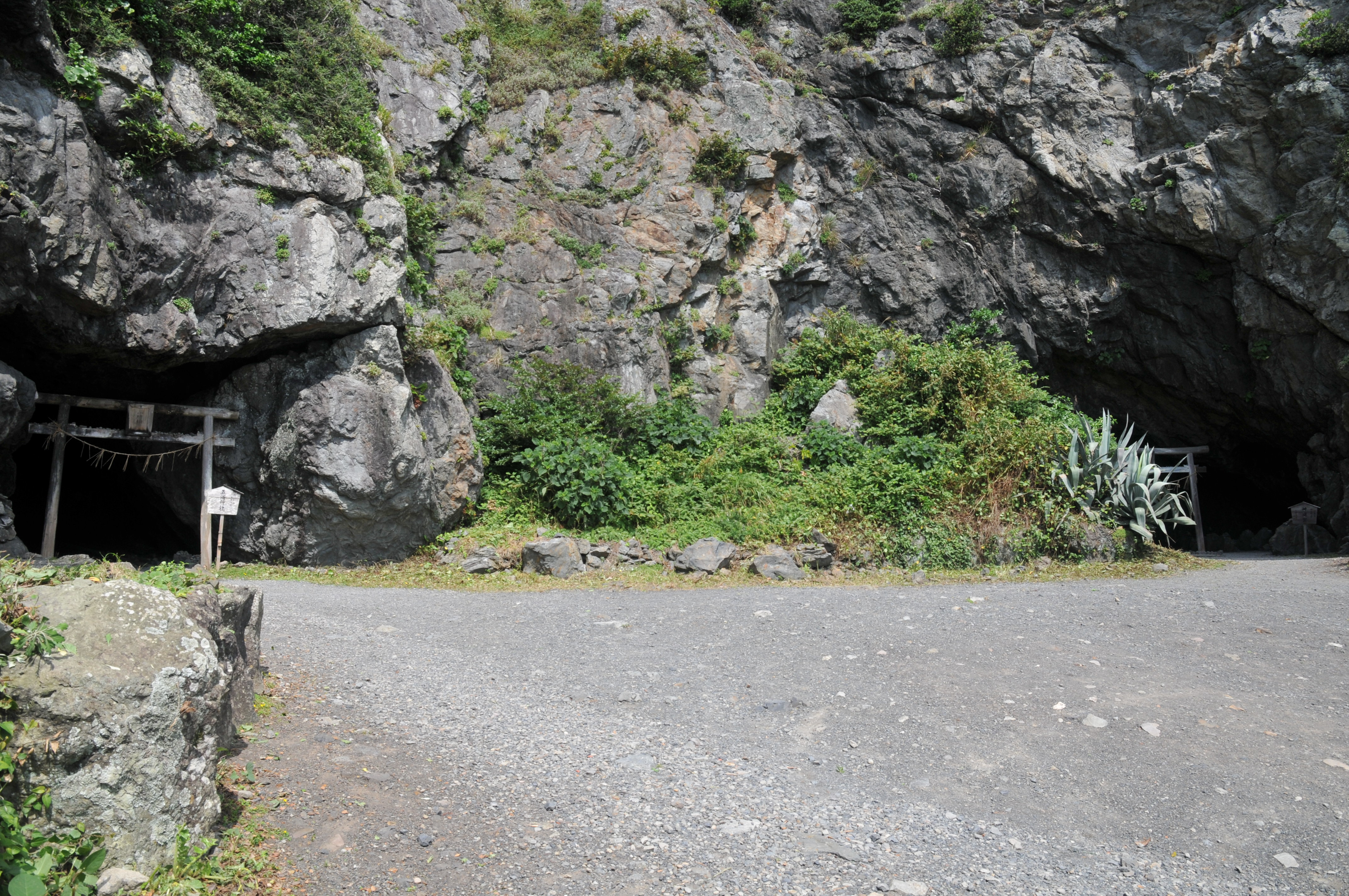 Mikurodo cave(left) and Shimei cave(right)